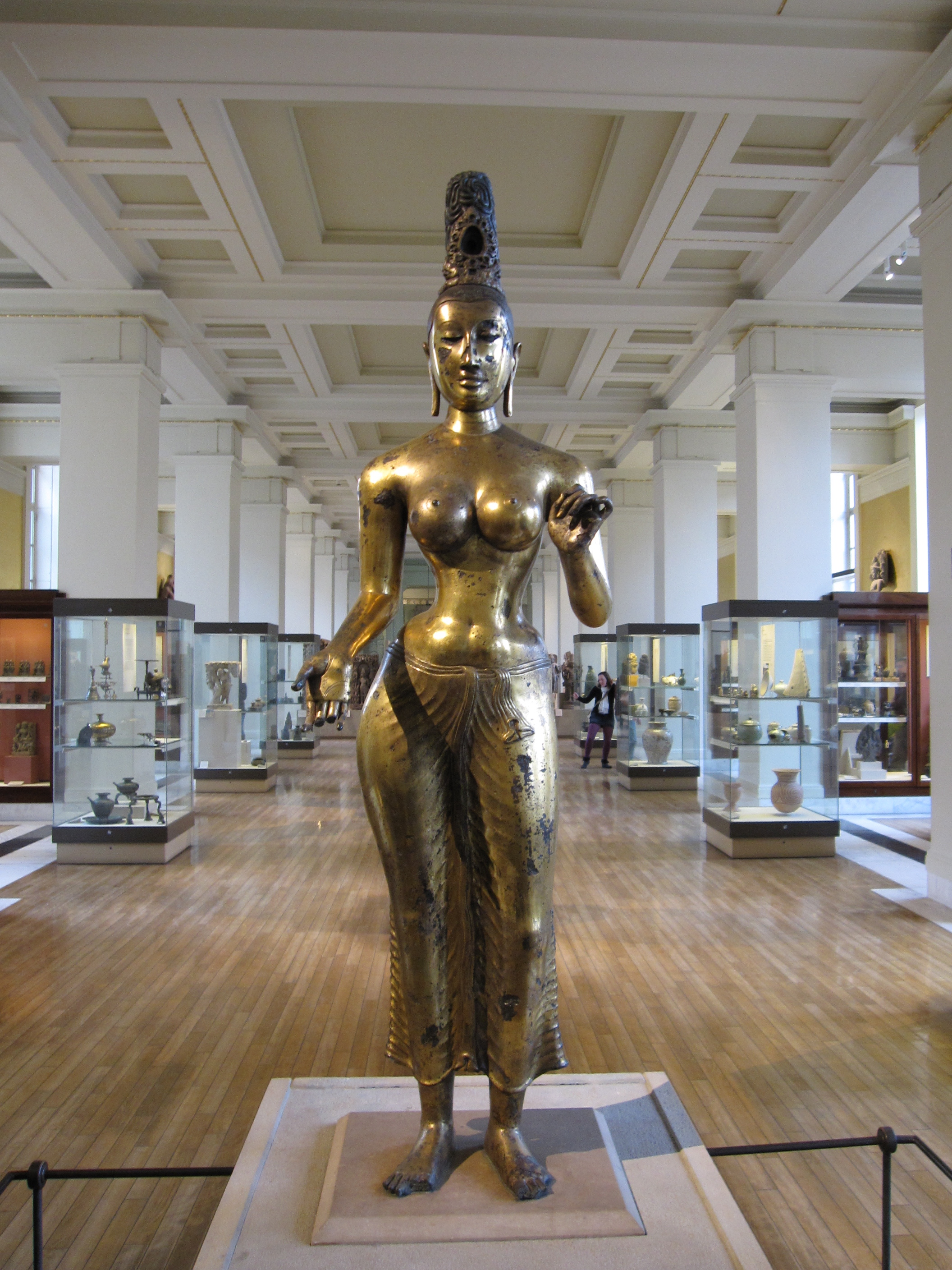 The Bodhisattva Tara. Gilded bronze, Sri Lanka, 8th century CE. With her right hand, the bodhisattva makes varadamudra, the gesture of charity or gift-giving, while her left hand may originally have held a lotus. The image is solid cast and would once have had semi-precious stone or crystal inlaid eyes. The niche in the head-dress would have contained a figure of a Dhyani Buddha. This sculpture was found on the east coast of Sri Lanka between Batticaloa and Trincomalee and is evidence of the presence of Mahayana Buddhism in the Anuradhapura period of Sri Lanka. These doctrines are generally more associated with the north of India. Given by Sir Robert Brownrigg. OA 1830.6-12.4. British Museum.